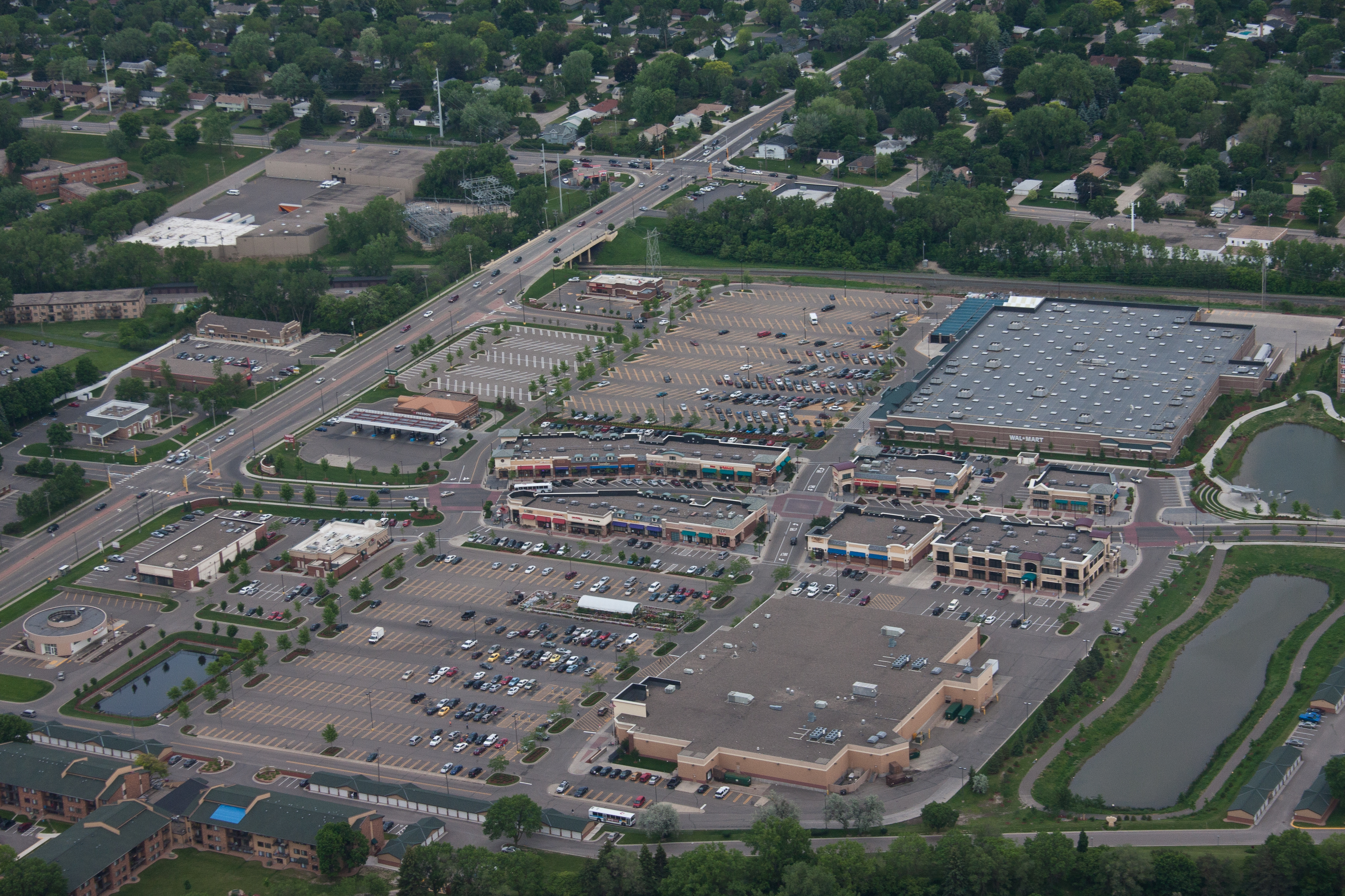 Silver Lake Village — St Anthony Minnesota aerial 4643309353 o